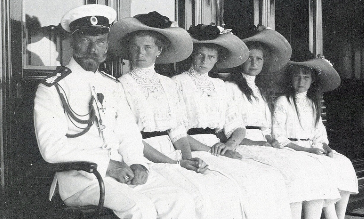 Tsar Nicholas II with his four daughters aboard the Imperial yacht Polar Star.